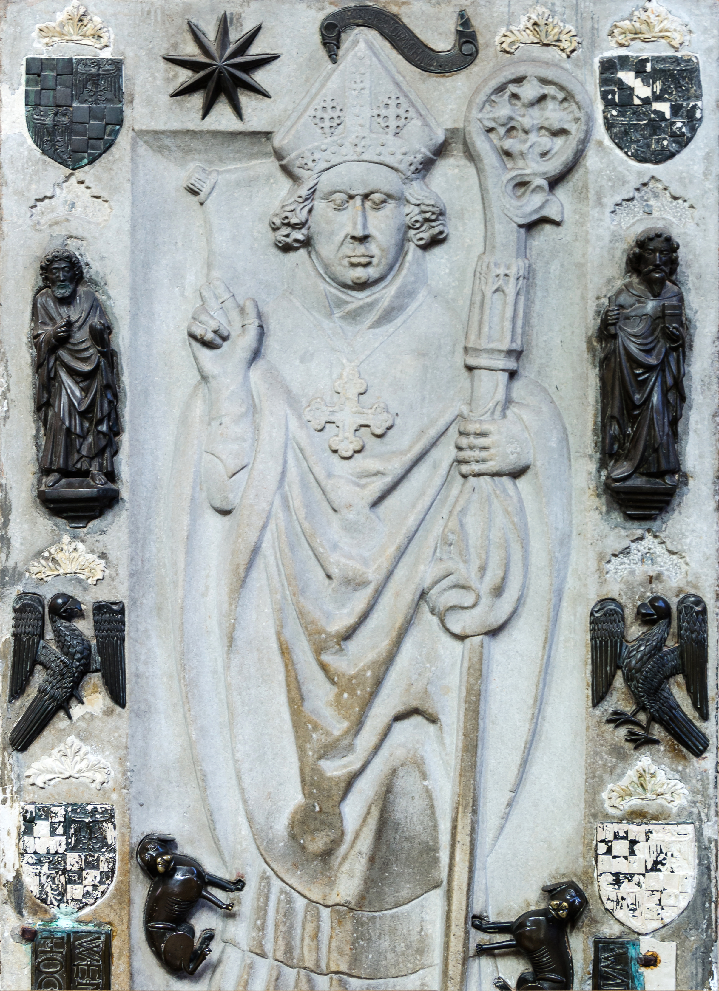 Saints James and Agnes Basilica in Nysa, Wenceslaus II of Legnica tombstone